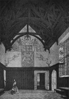 Great Hall, Bradfield House, Devon, looking toward the north gable wall showing the arms of King James I and a crudely executed wall-painting of two soldiers (Pevsner, p.199)